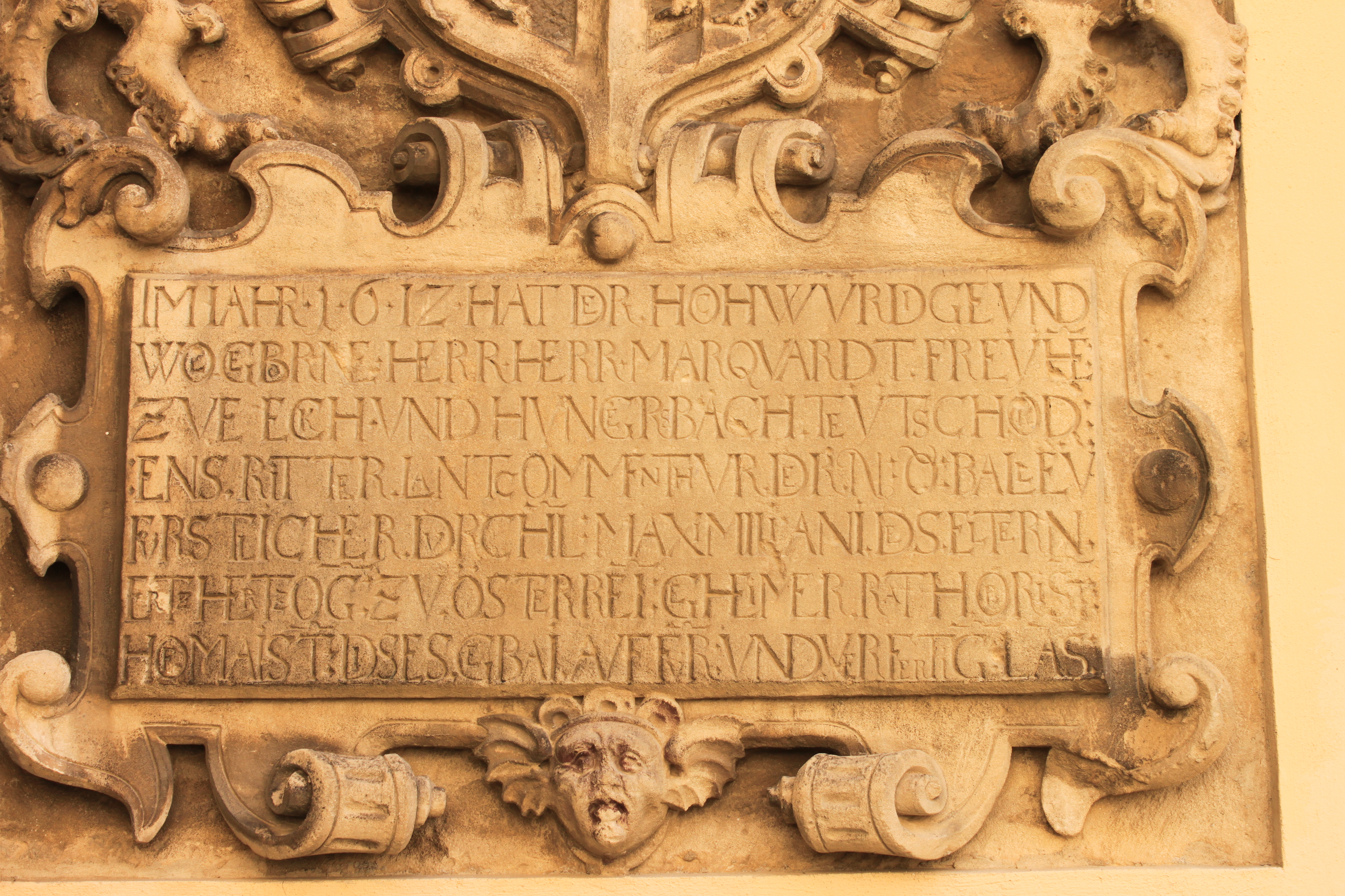 Plaque of Philibert Pacobello for Markwart Freiherr (baron) von Eckh and Hungerbach in the courtyard of the castle Großsonntag, 1612Afrikaans: Gedenkplaat van Philibert Pacobello vir Markwart Freiherr (Baron) von Eckh en Hungerbach in die binnehof van die kasteel Großsonntag, 1612Slovenščina: Plaketa Philibert Pacobello za Markwart Freiherr (Baron) von Eckh in Hungerbach na dvorišču gradu Velika Nedelja, 1612